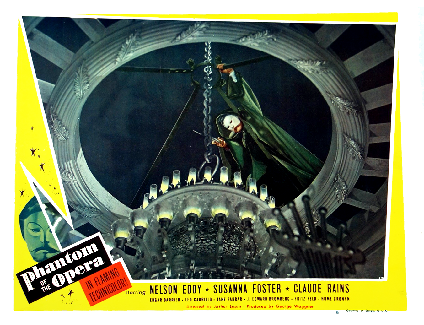 Colored lobby card for the 1943 remake of The Phantom of the Opera, showing Claude Rains as the eponymous phantom. Image is assumed to be in the public domain as no copyright notice is in evidence.